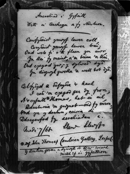 1 negative : glass, wet collodion, b&w ; 11 x 8.5 cm.